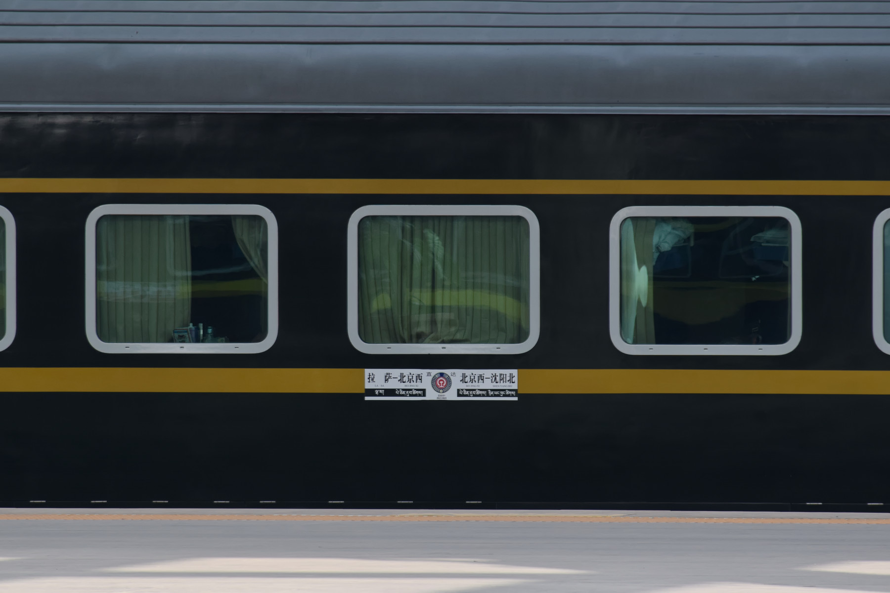 Z22 25T train was stopping at Xining Railway Station